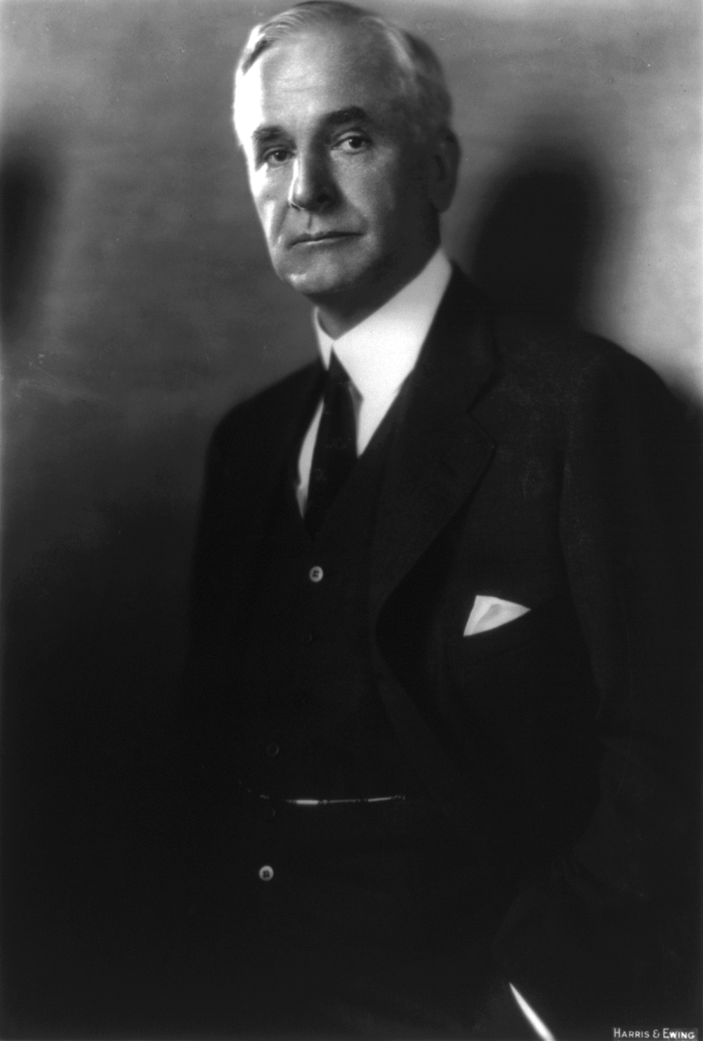 Cordell Hull